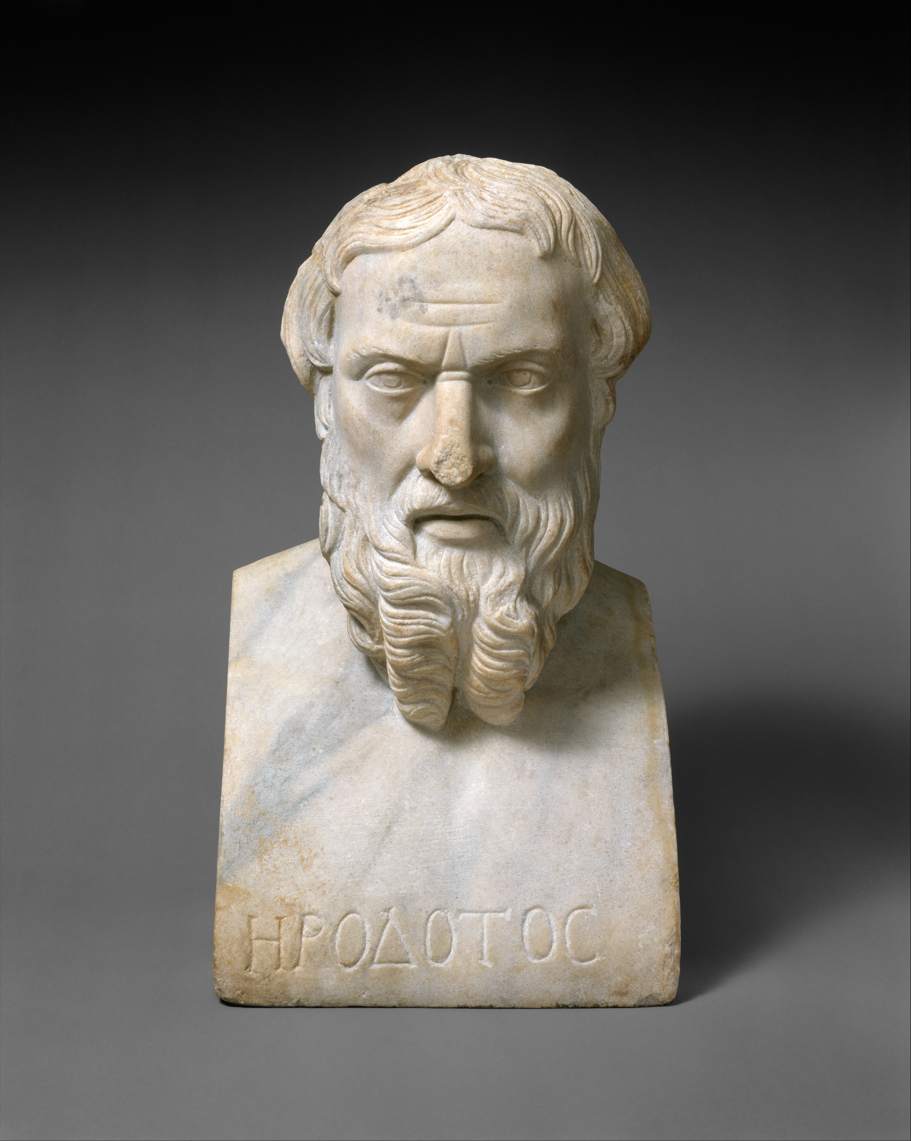 Roman; Portrait bust of Herodotos; Stone Sculpture